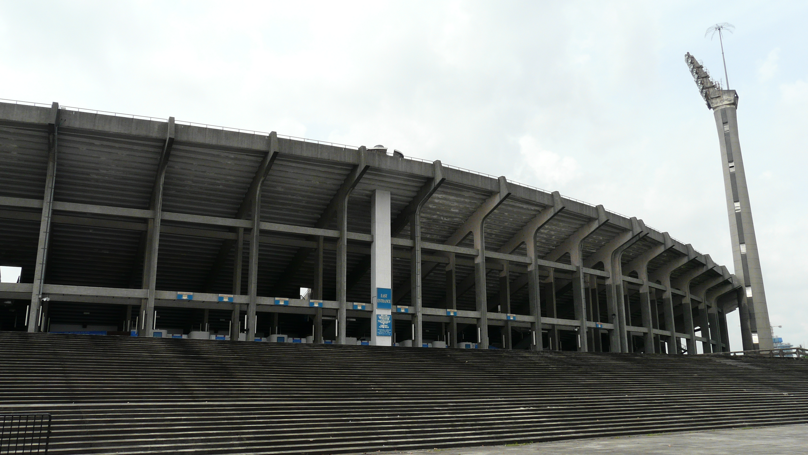 National Stadium Kallang Singapore East Entrance